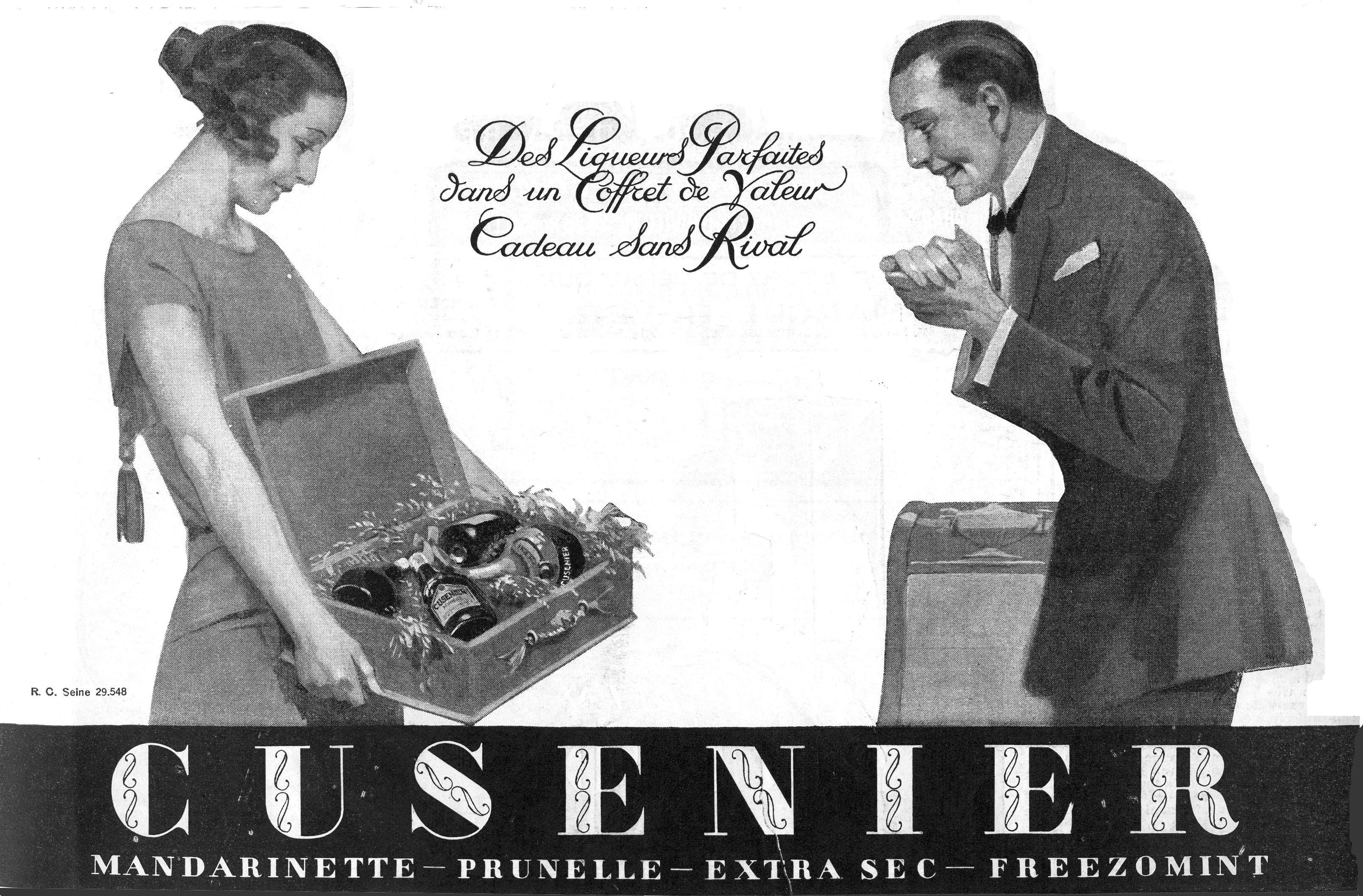 Cusenier advertisement of 1923